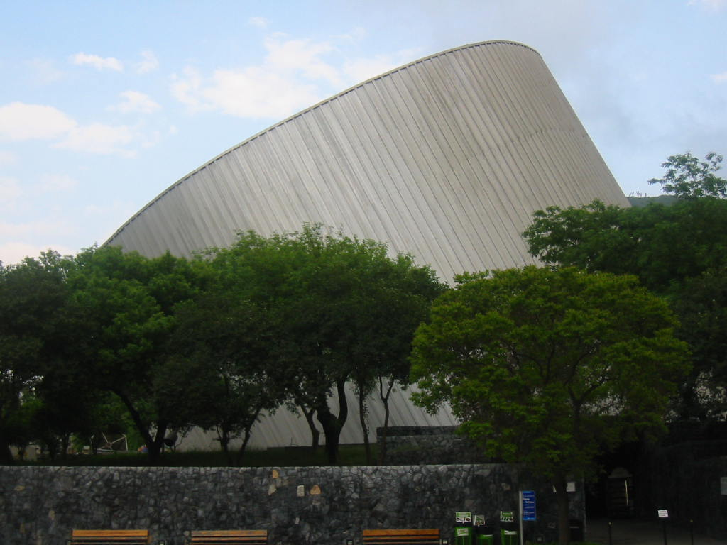 lateral view of Museum of Planetario Alfa, Monterrey N.L. México, IMAX Dome since 1978